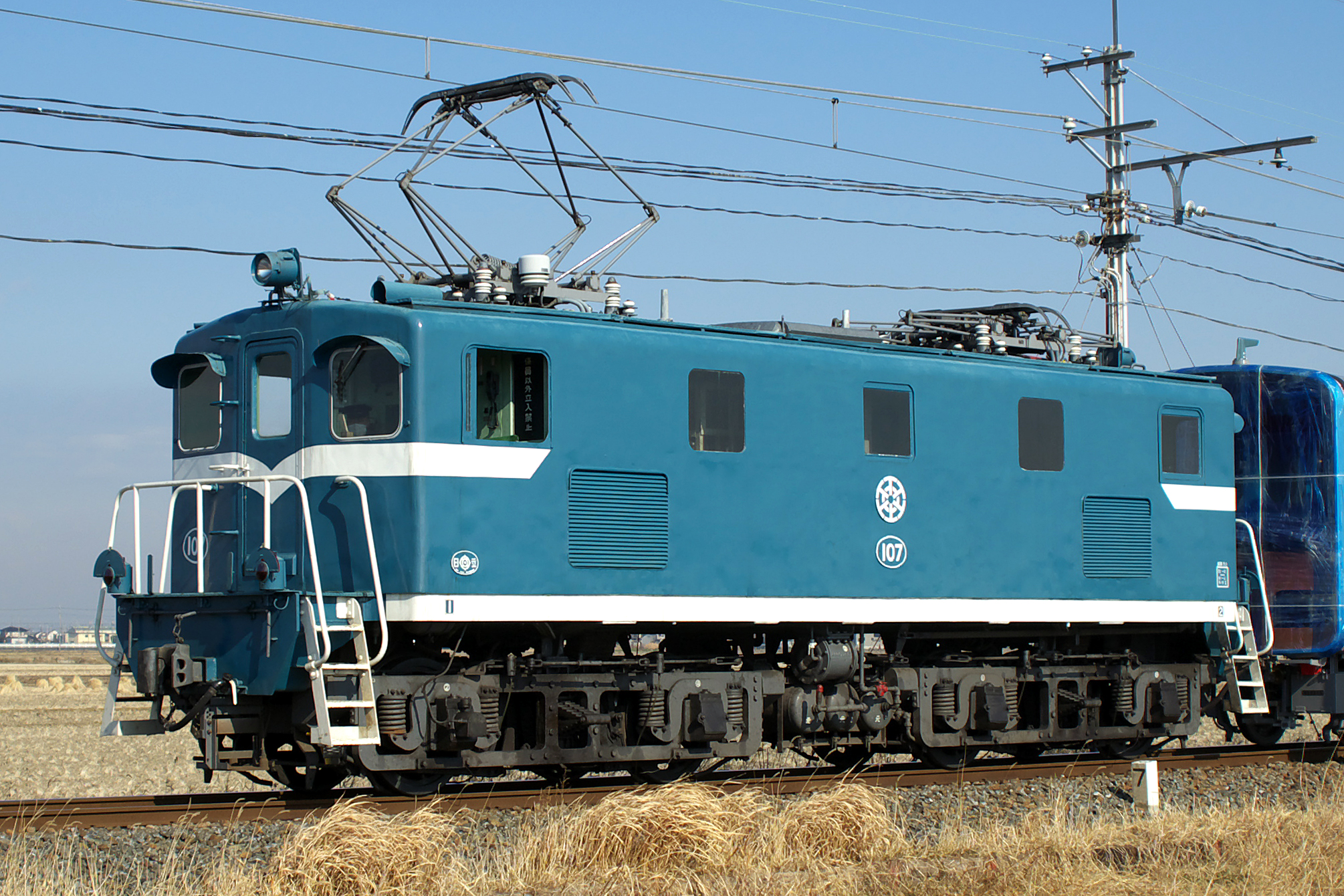 Chichibu Railway Class DeKi 100 electric locomotive DeKi 107 hauling a newly-delivered Tobu 50000 series EMU train on the Chichibu Main Line